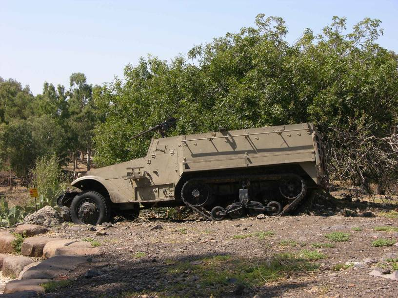 Tel Faher, Armored Personnel Carrier from June 1967